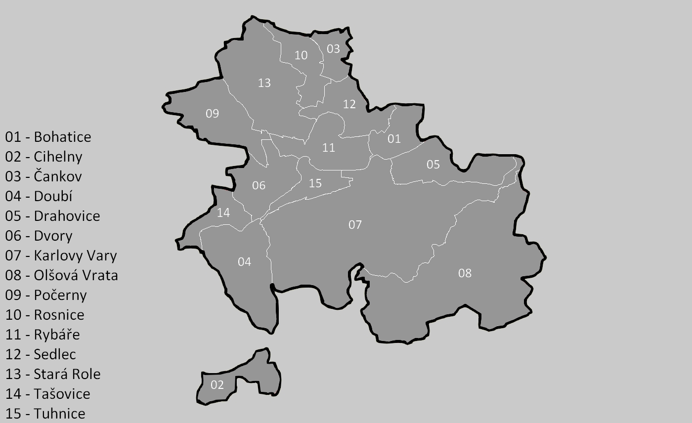 plan of karlovy vary